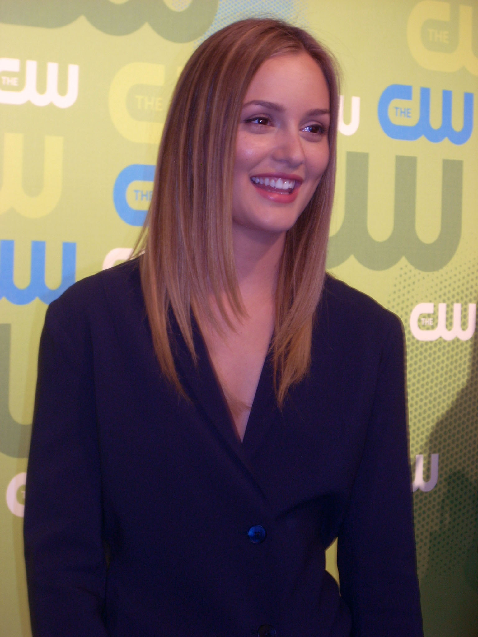 Leighton Meester at the CW Upfront Presentation: Green Carpet Arrivals, Madison Square Garden, New York City - May 21, 2009.